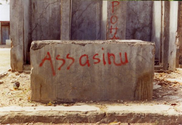 Wall painting, saying "murderer" in Tutuala/East Timor. Remembering the massacre by pro-indonesian guerilla 1999